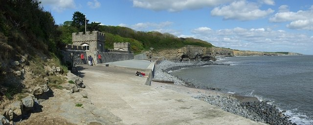 St Donat's Bay and Beyond